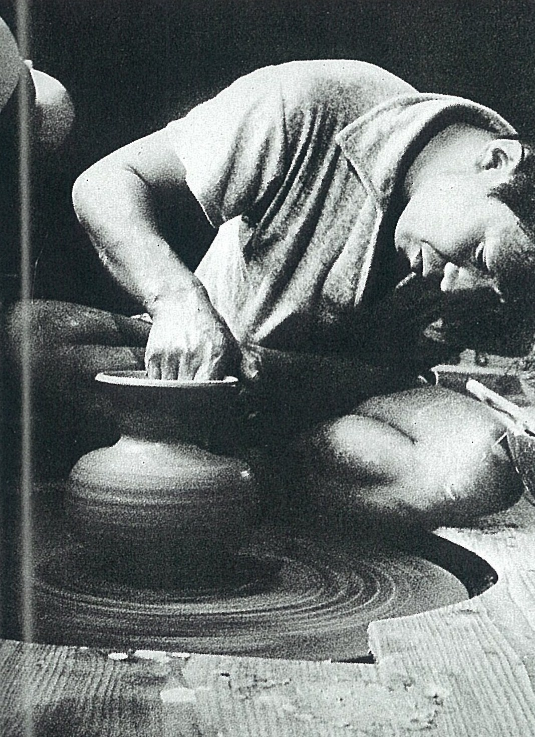 Seimei Tsuji was a Japanese potter(ceramic artist).